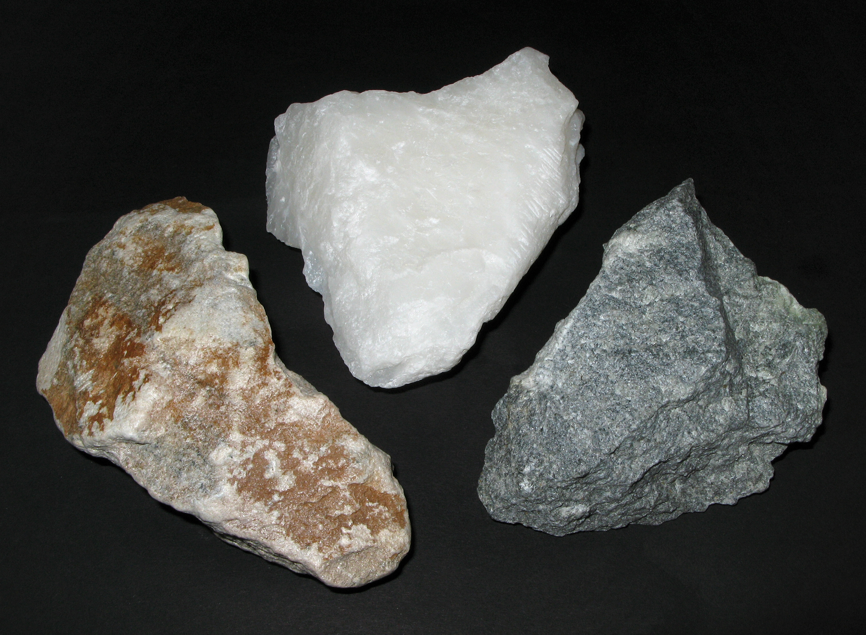 Soapstone - several colored samples